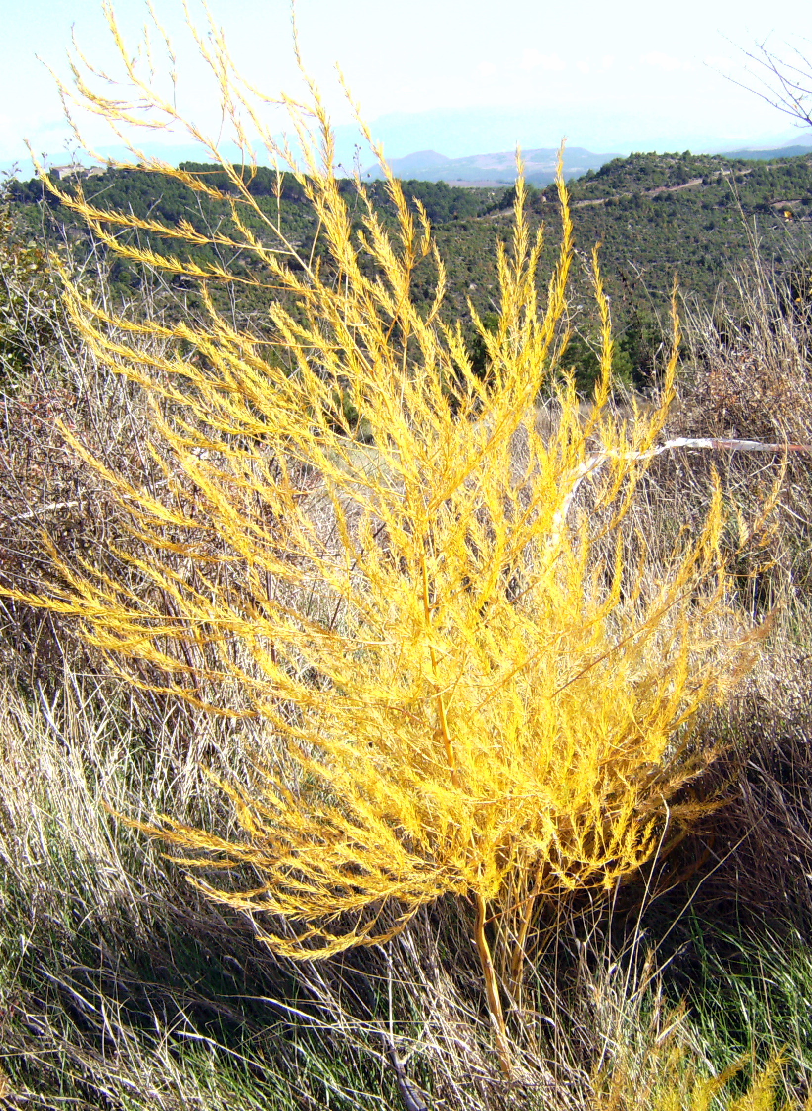 Asparagus plant in autum, Castelltallat, Catalonia